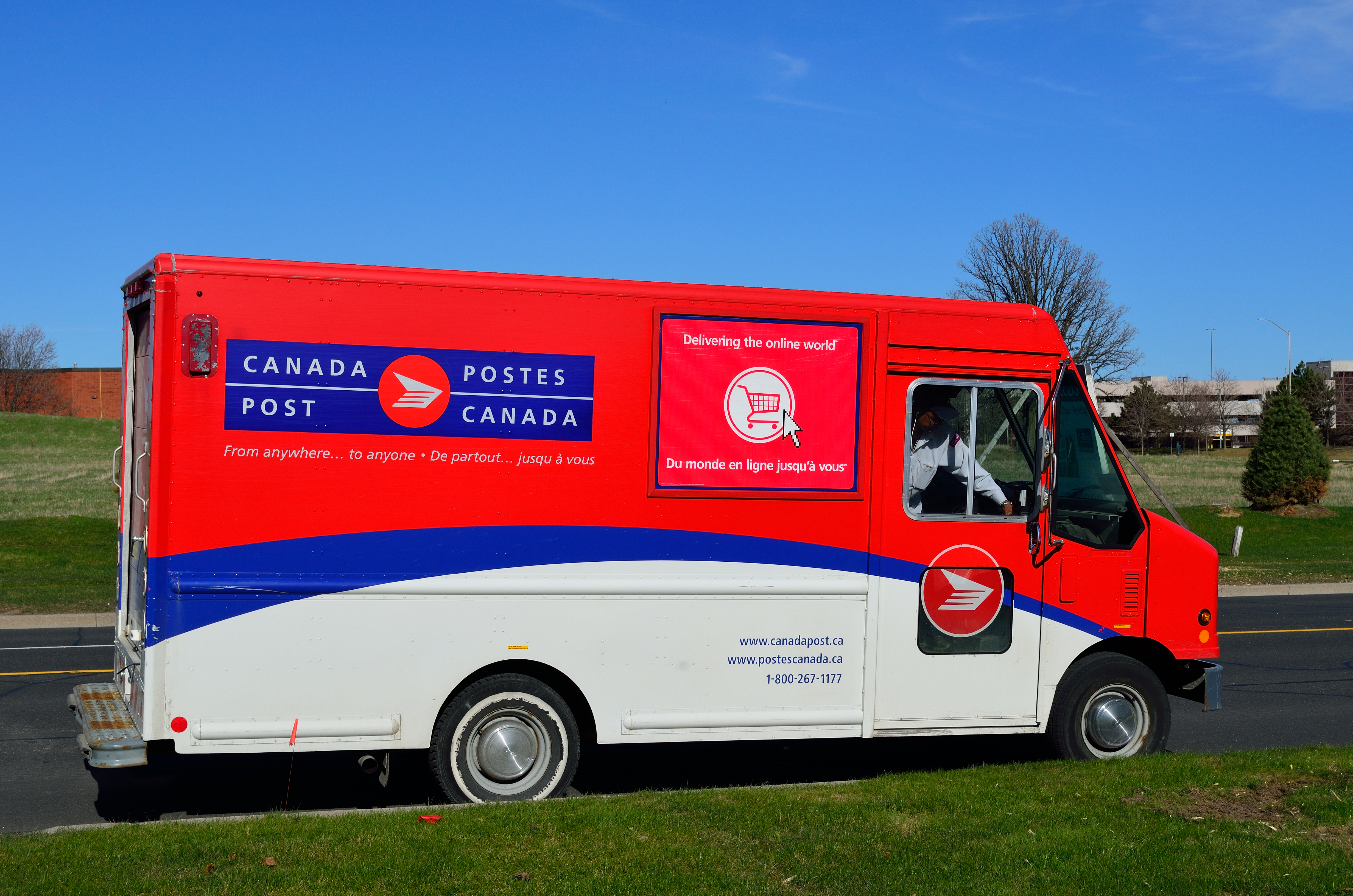 A Canada Post Truck in the GTA.